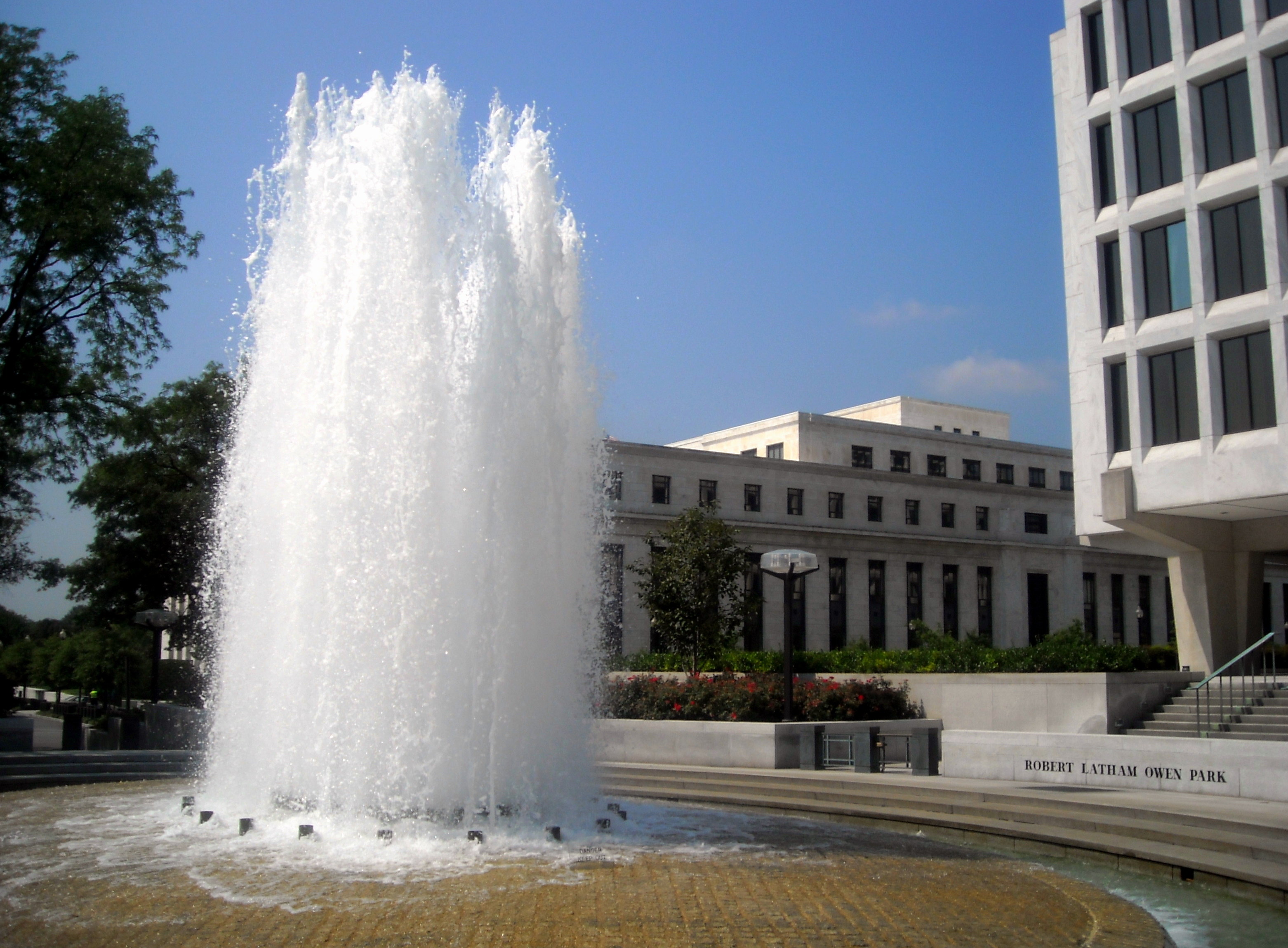 The Robert Latham Owen Park, located beside the Federal Reserve Annex at 20th & C Streets, NW in the Foggy Bottom neighborhood of Washington, D.C. The Eccles Building is visible in the background.